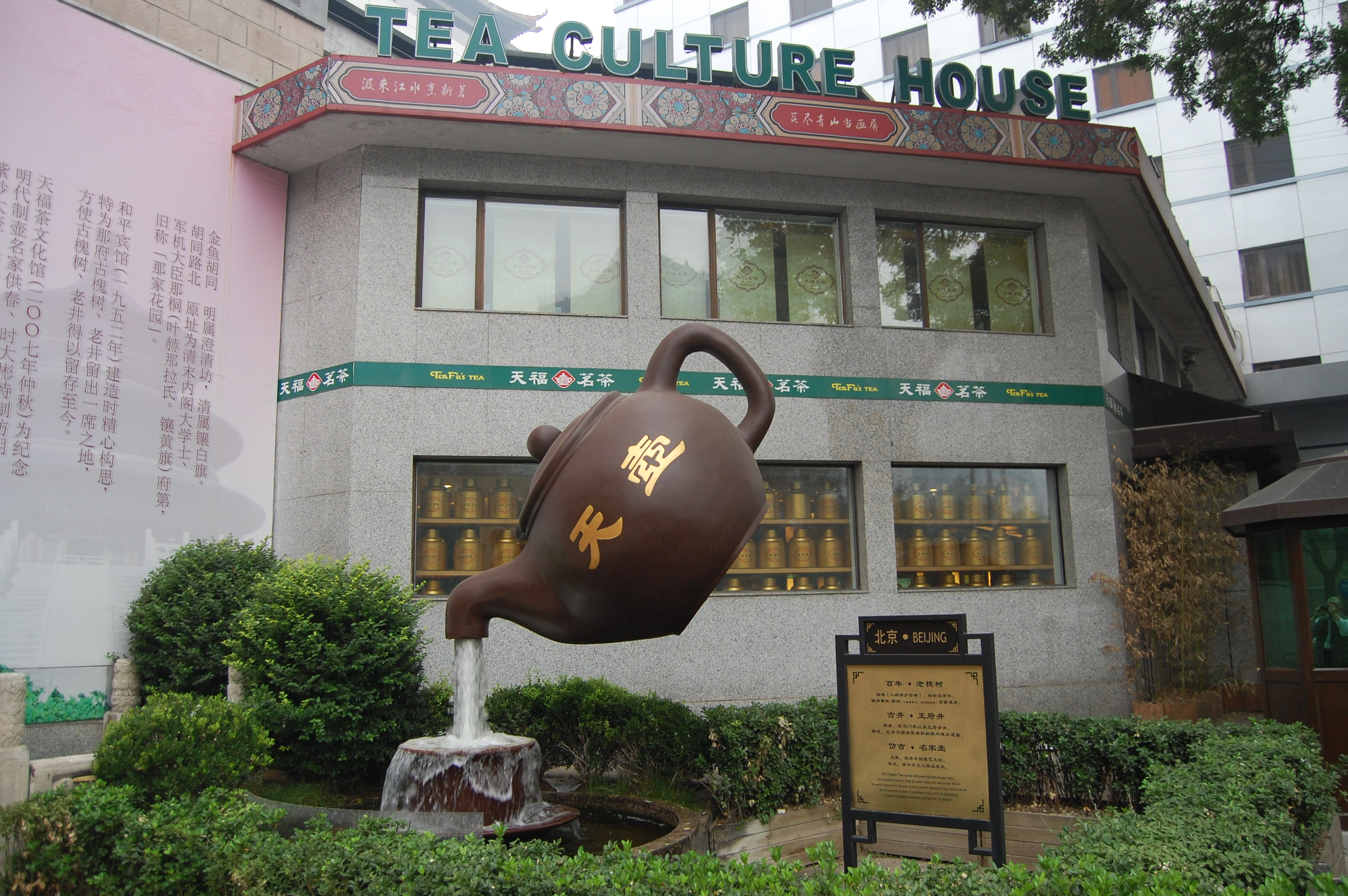 Tea house (shop) in Beijing